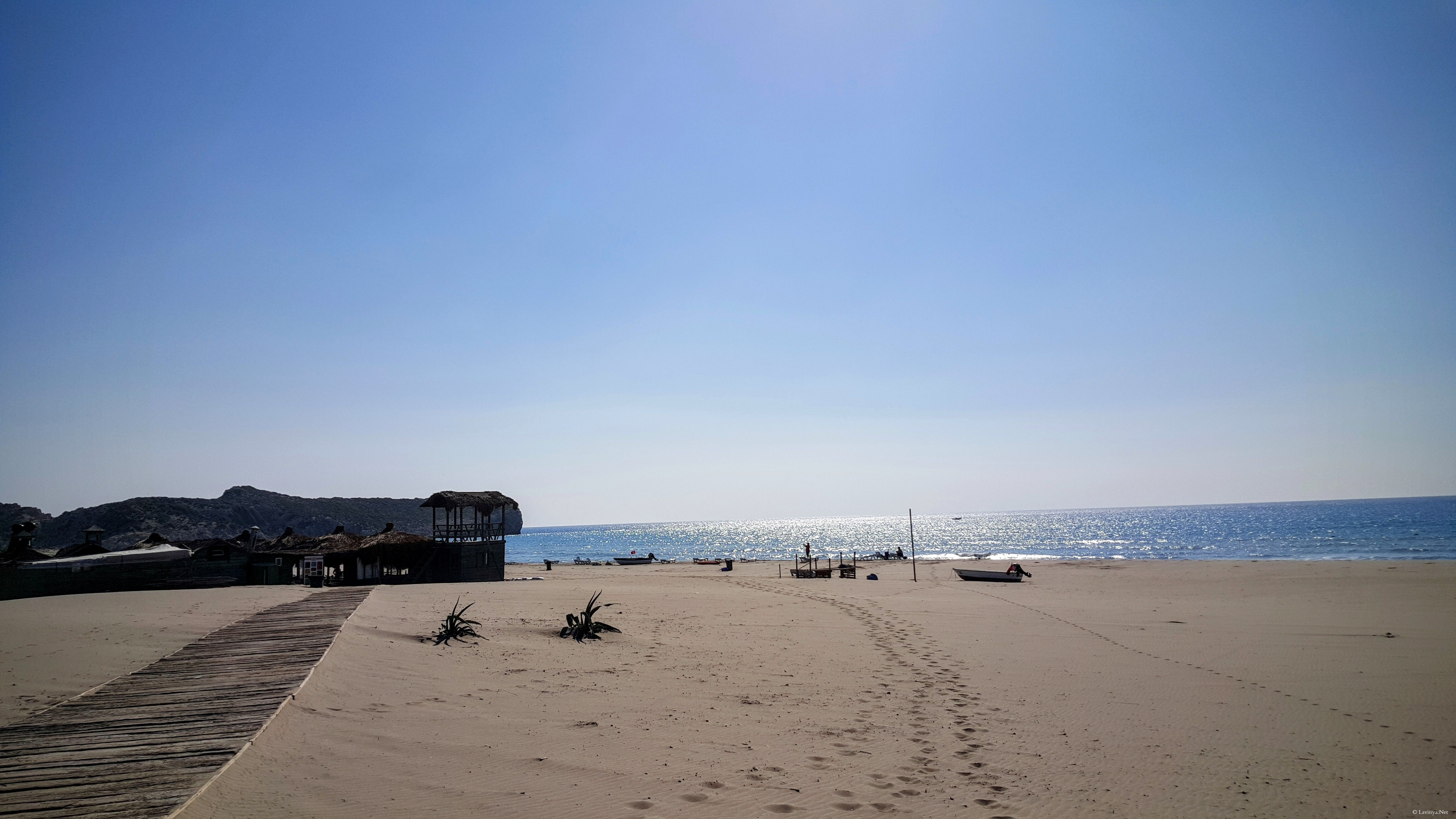 A view from Patara Beach. November 2015.